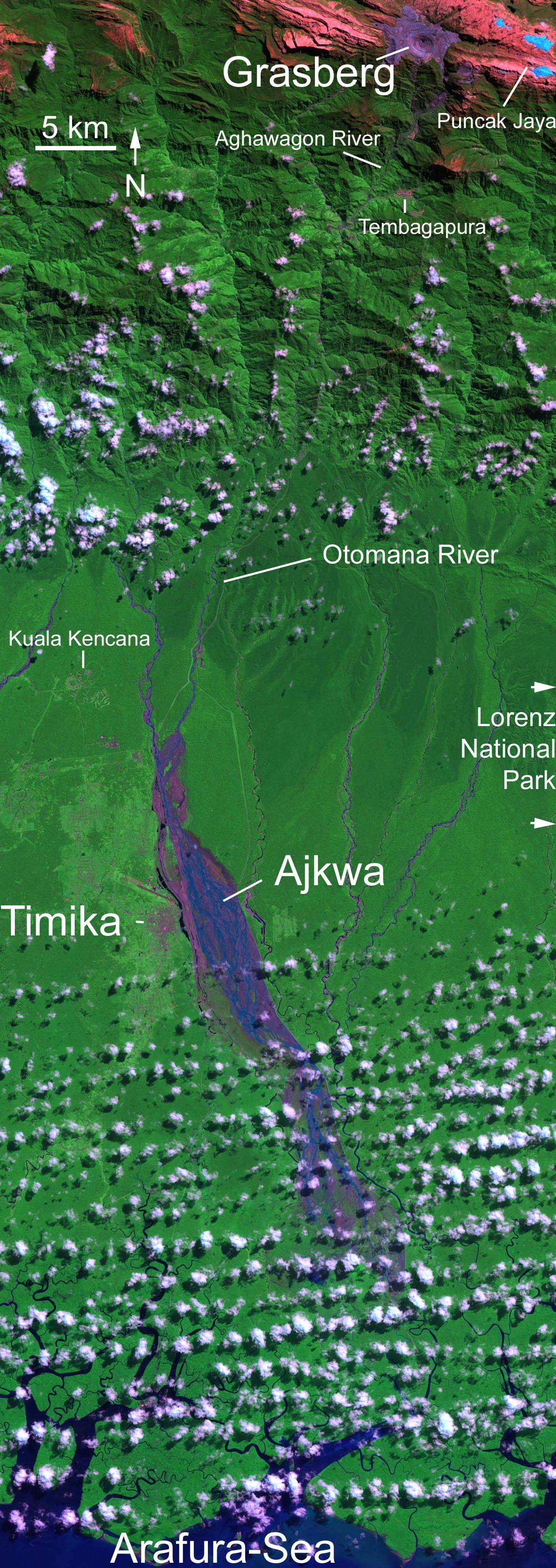 Grasberg-Mine in West New Guinea (West Papua). Ausschnitt aus dem hochaufgelösten (6000x6000 Pixel) Landsat-Original, beschriftet. Abraum der Mine in violett, hellblau: Gletscher. Falschfarbene Darstellung. Farben: snow and ice appears blue while clouds are white, bare unvegetated land such as the rocky limestone summit ridges appear red or pinkish, the deep purple and grey is the open pit copper mine while the lush rainforest of the lowlands appears green. In the large format image, runoff into the rivers south of the mine shows up in deep purple, much of which is fine debris washed downstream from the mine.